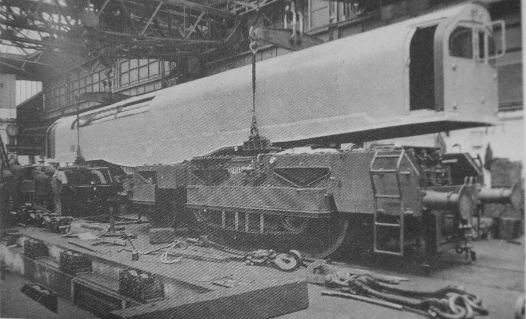 Official photograph of the Leader locomotive taken at Brighton works. Taken in May 1949 by British Railways, a nationalised (UK government) concern. Source: Bulleid, H. A. V.: Bulleid of the Southern (Hinckley: Ian Allan Publishing, 1977) ISBN 071100689X. Black & white version of Leader at Brighton.jpg